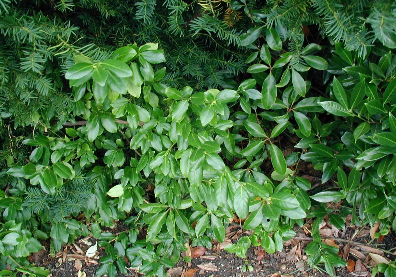 Euonymus fortunei: Foliage